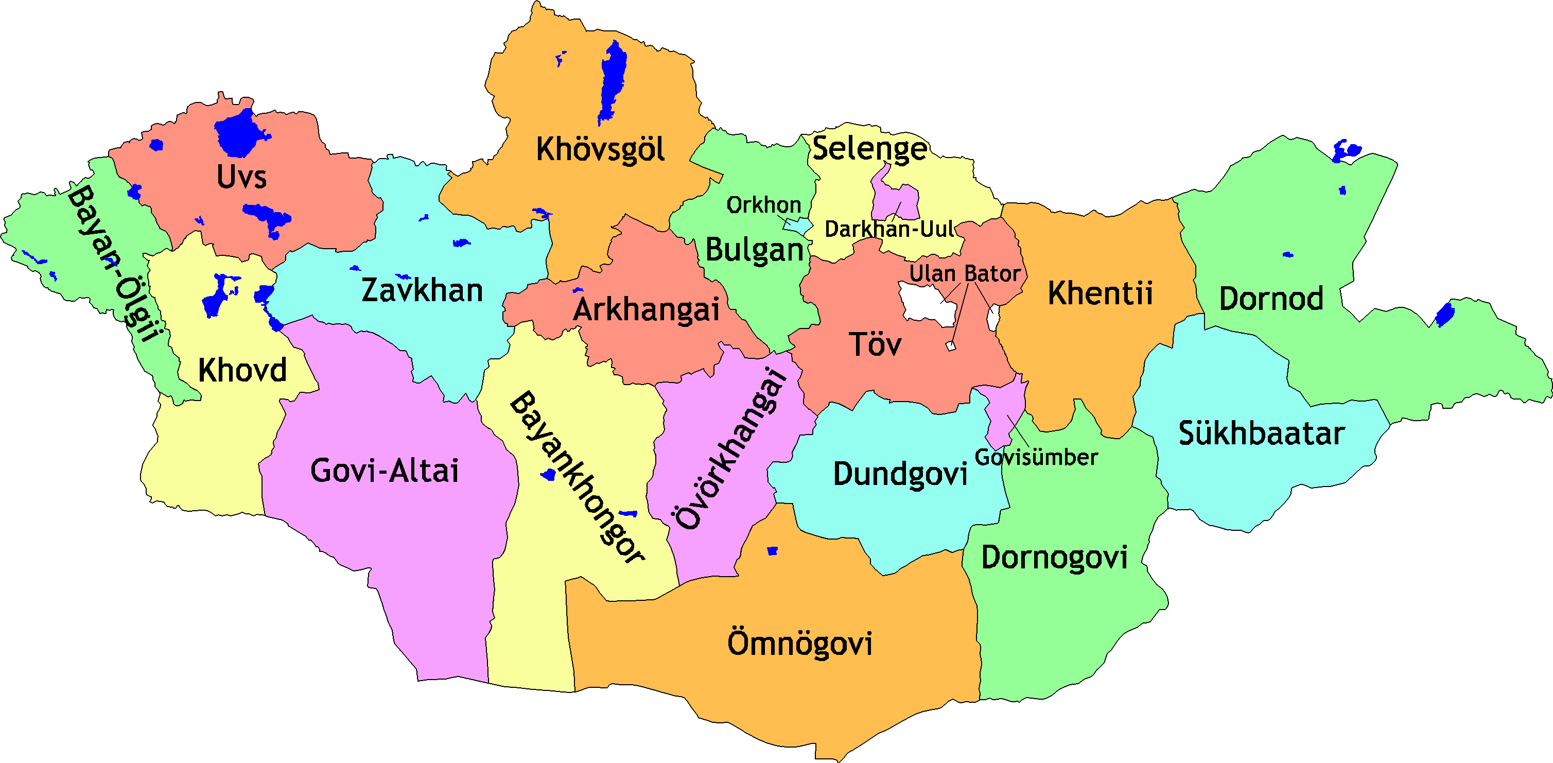 Aimags of Mongolia